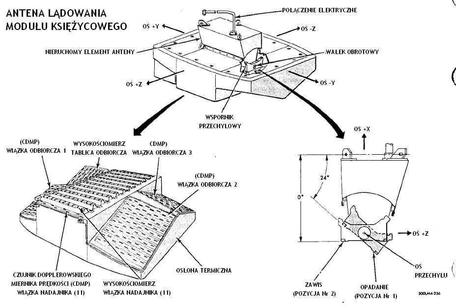 Lunar module landing radar antenna assembly